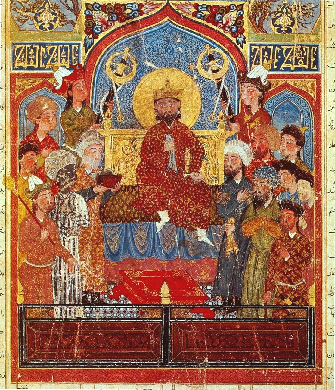 Illustration from the Demotte Shahnameh, Louvre OA7096